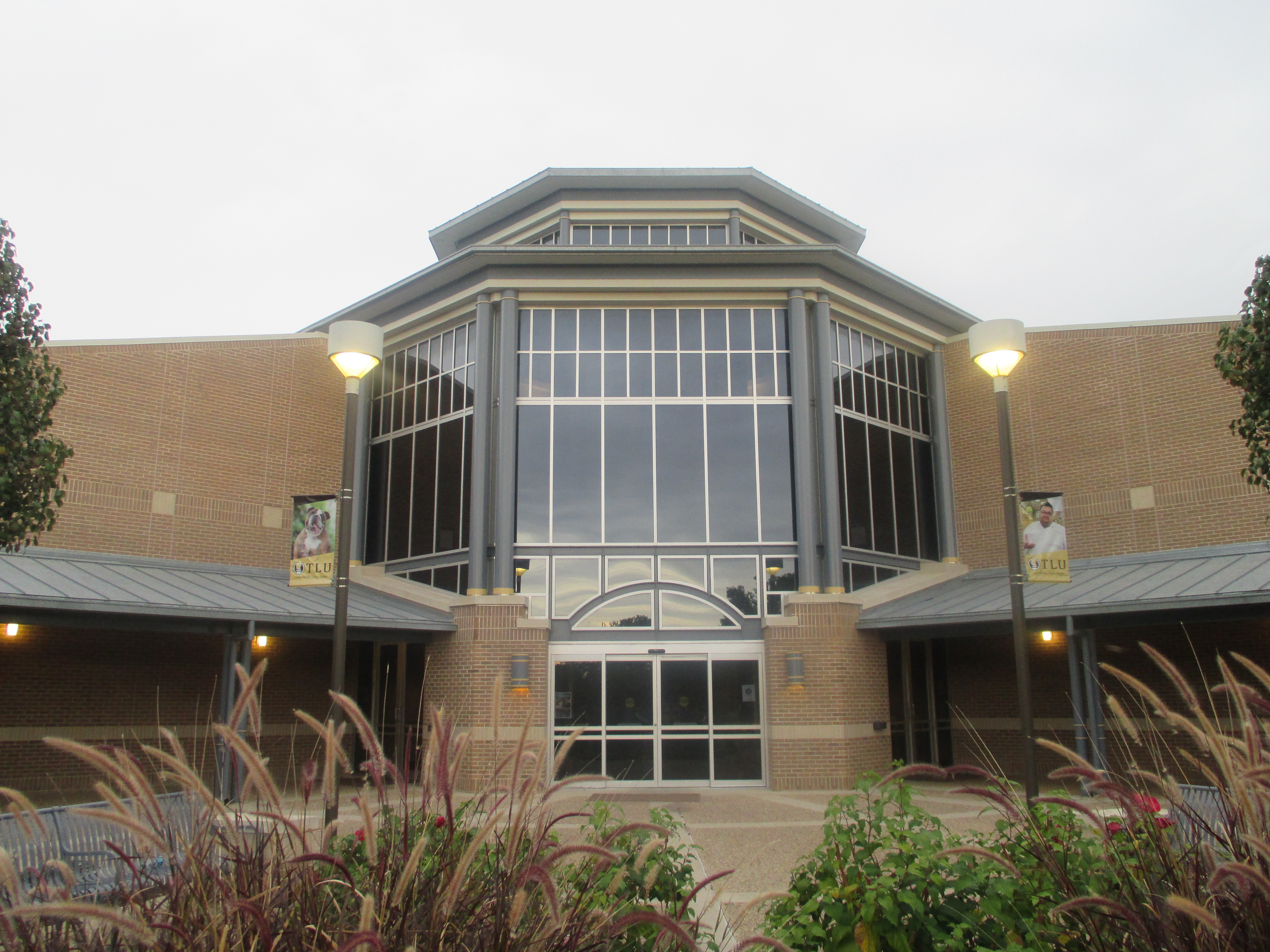 I took photo with Canon camera of Weimar and Paula Hein Dining Center at Texas Lutheran University in Seguin.